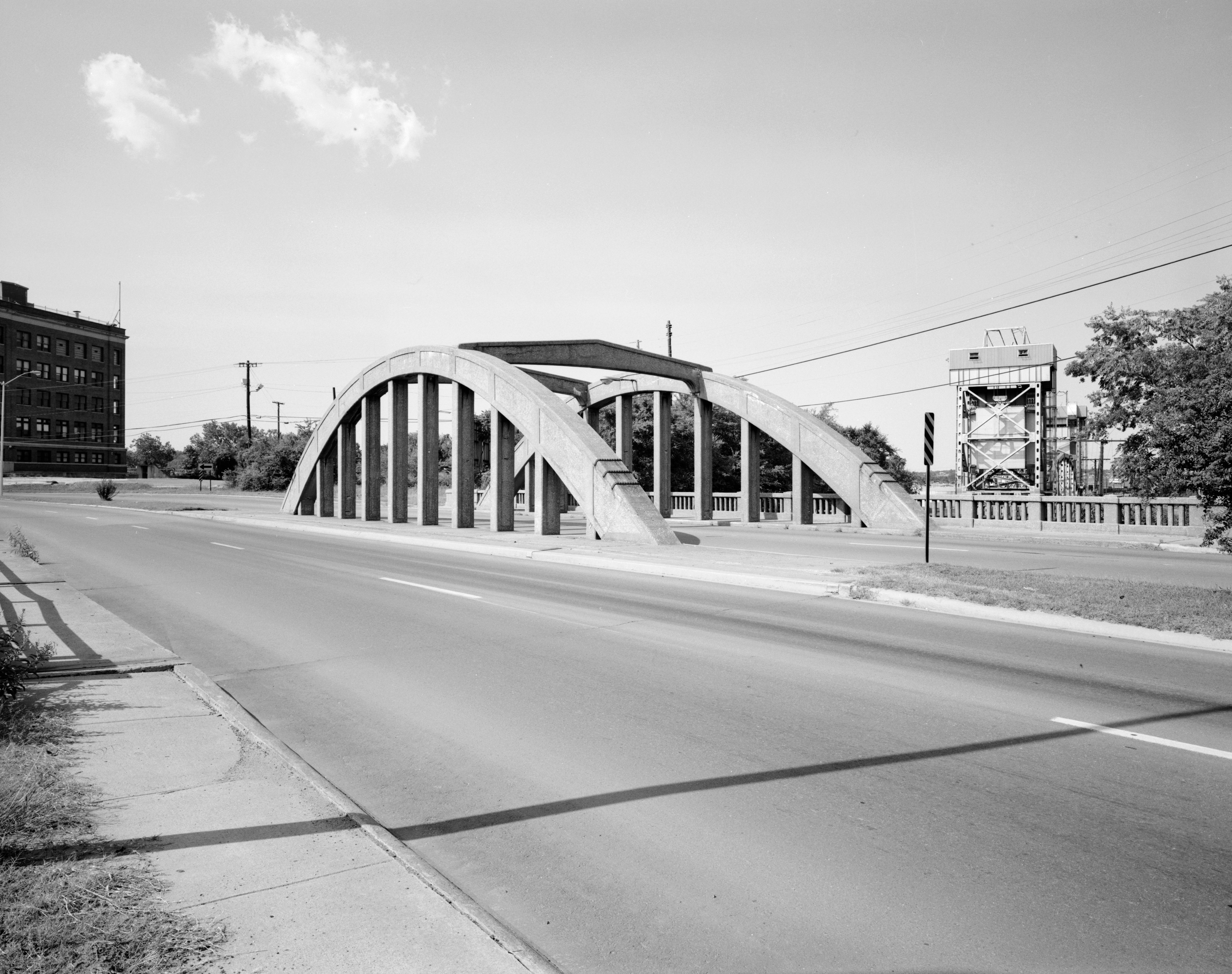 Northward on the Lincoln Avenue Viaduct, which carries Lincoln Avenue over a line of the Union Pacific Railroad in Little Rock, Arkansas, United States. Built in 1928, it is listed on the National Register of Historic Places.